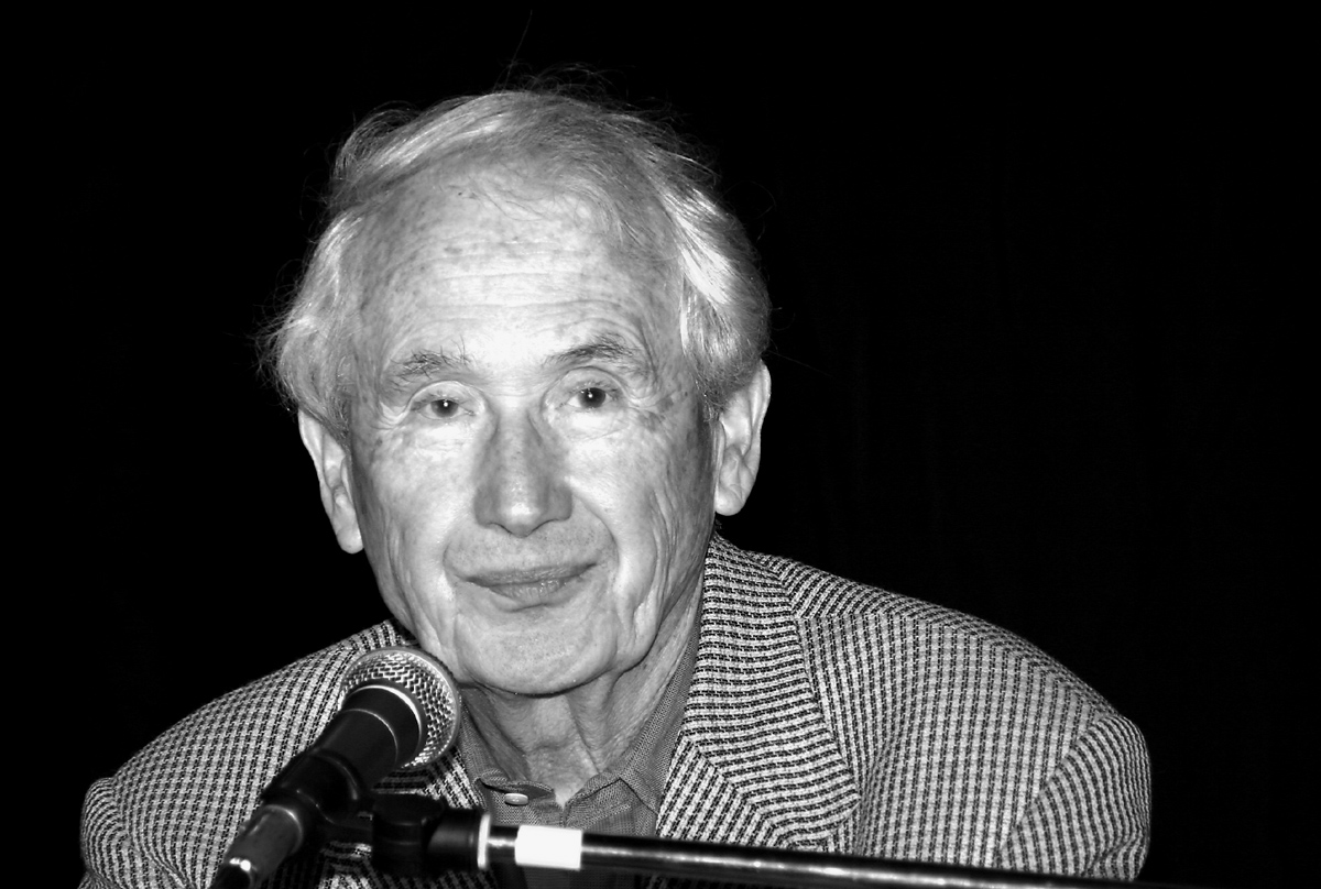 Frank McCourt at a reading in Cologne, Germany